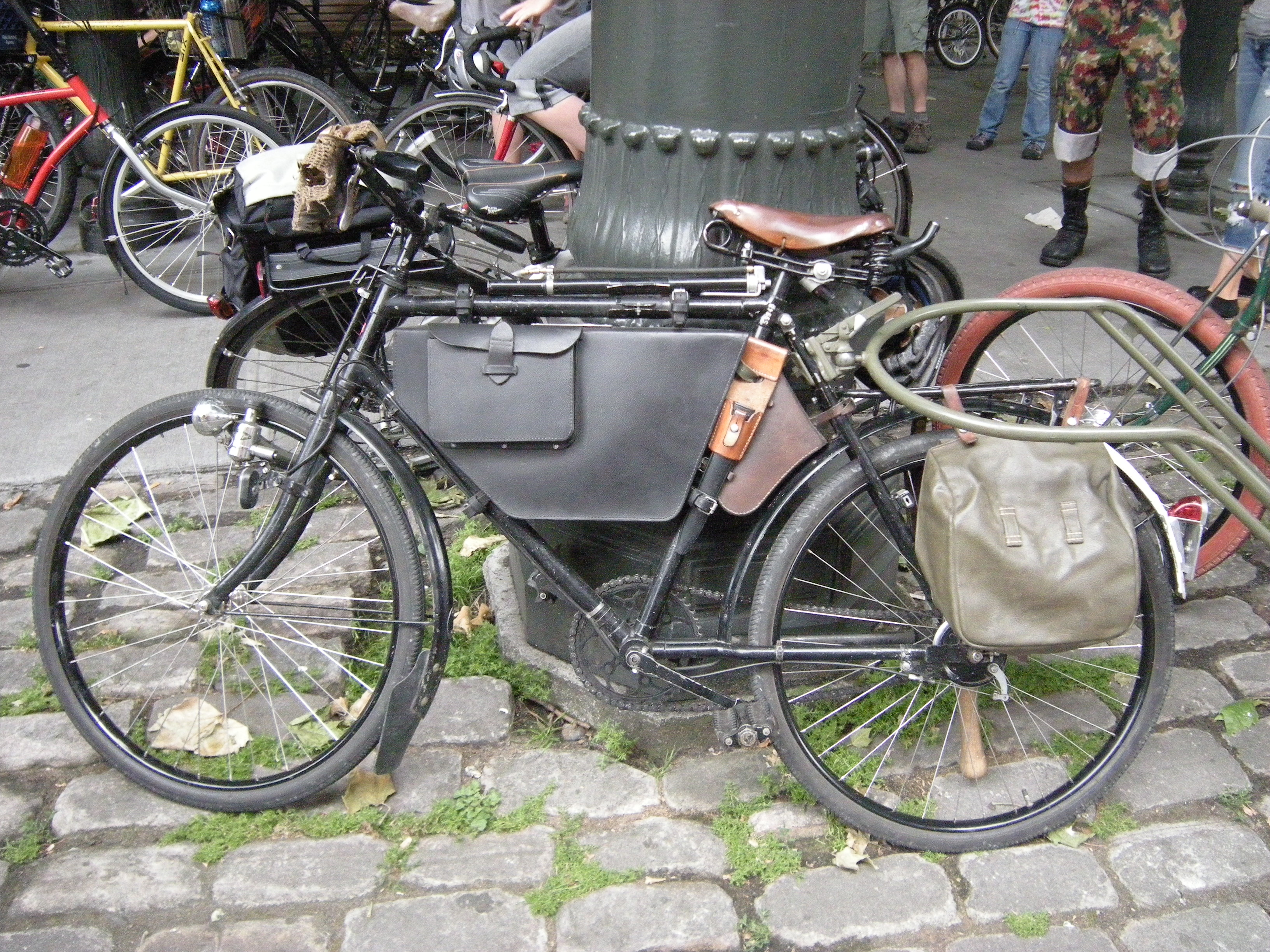 Swiss Army bicycle at cargo bike rally, Seattle, Washington. The photo was taken at the Pioneer Square pergola.